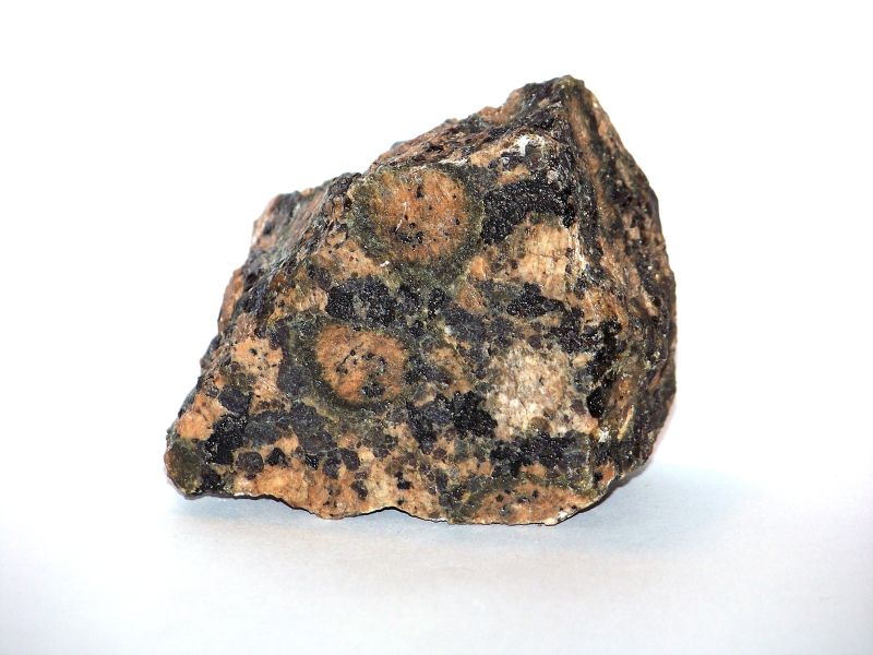 Praecambrian granite - rapakivi (Wyborgite)